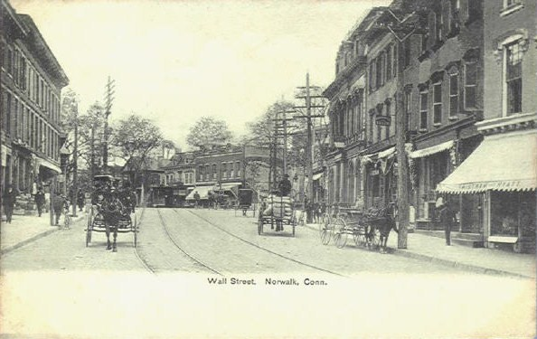 Postcard picture of Wall Street in Central Norwalk section of Norwalk; undivided-back style postcard of a type demanded by U.S. postal regulations between 1901-1907 (place for message is in the white space along the bottom of picture side); view appears to be looking eastward